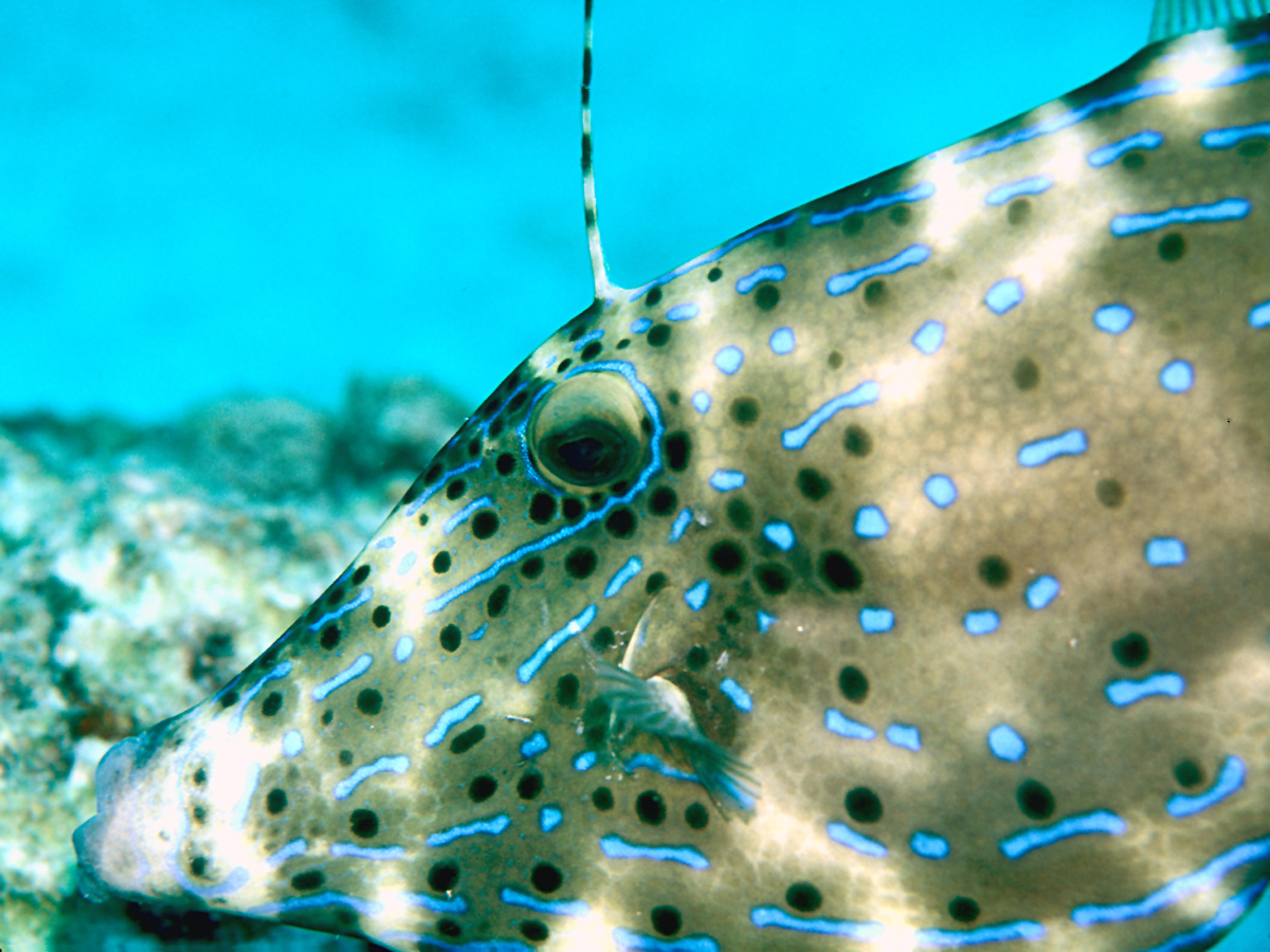 A Scrawled Filefish (Aluterus scriptus) poses for a macro shot. I love the neon patterns on this species, not to mention the odd face. They are wary loners and do not often allow you to get this close. Bonaire (Neth. Antilles) 4/2000. This one is kind of cool when viewed in LARGE format.